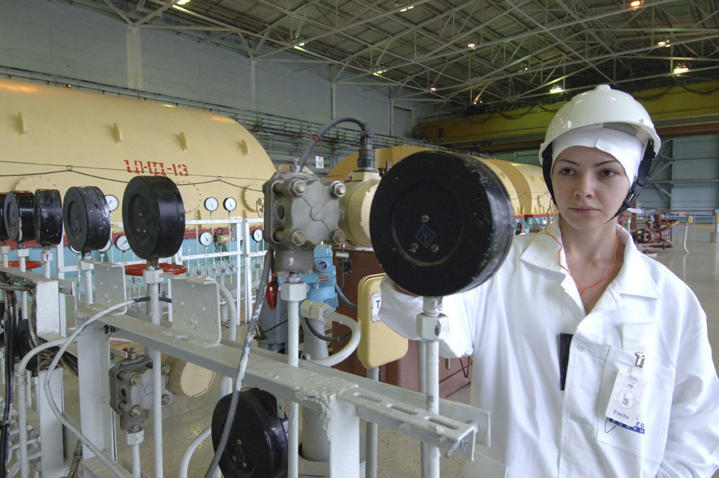 “Kursk Nuclear Power Plant”. A machine room of Kursk Nuclear Power Plant in the town of Kurchatov.